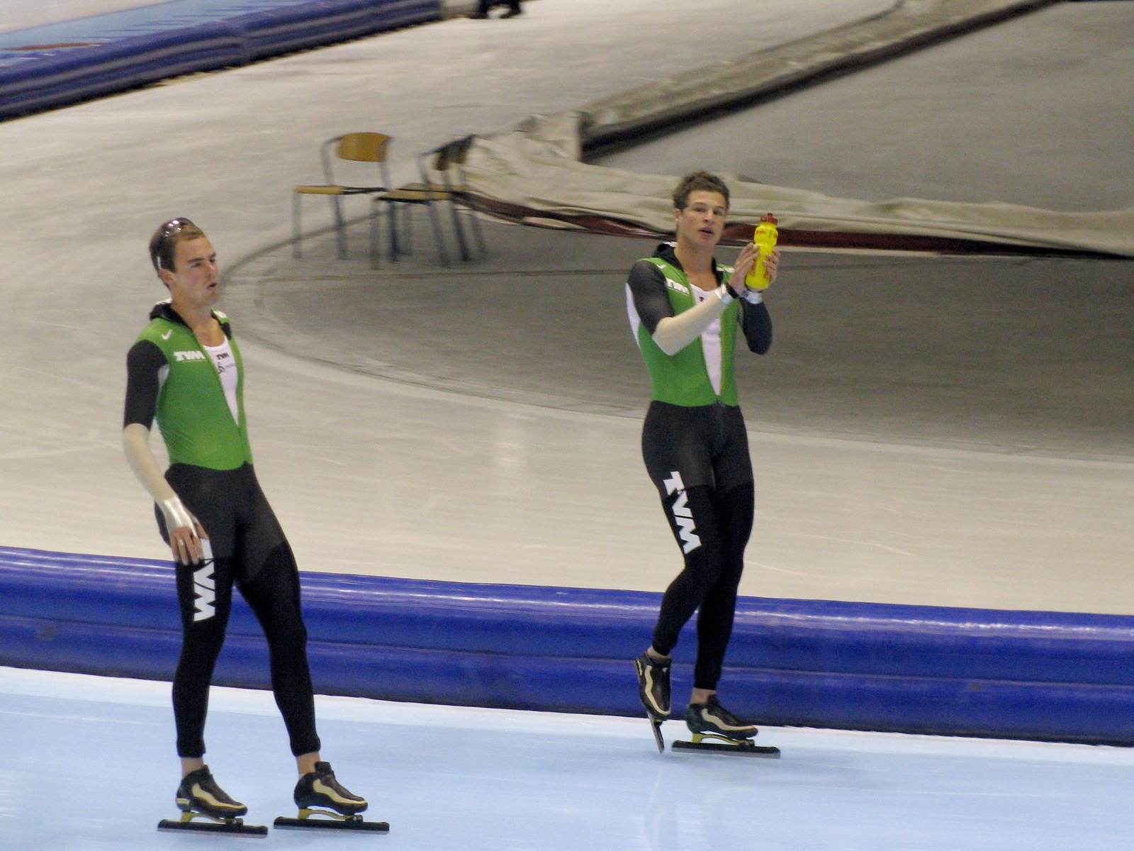 Sven Kramer winning the 10000 meter race (2009 Dutch Allround Speed Skating Championship)